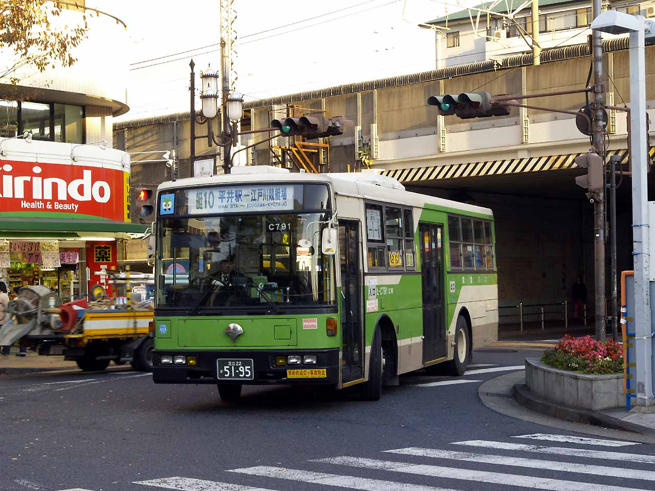 Edogawa Kyotei (boat racing) Course shuttle bus, operated by Toei Bus. Model: Nissan Diesel KC-UA460HSN License plate: TKA22 KA5195 Place: JR Hirai Station, Edogawa Ward, Tokyo Japan